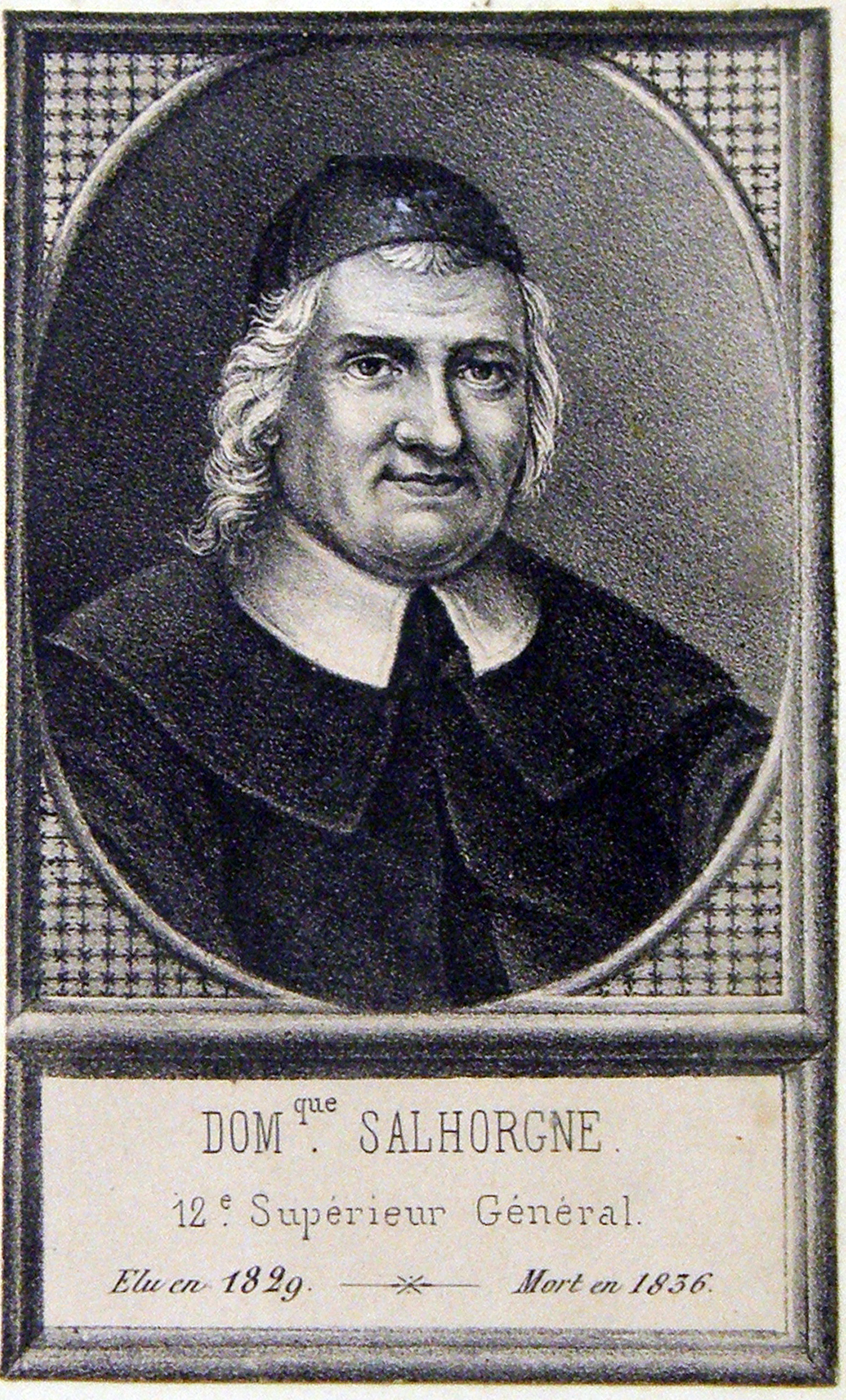 Dominique Salhorgne (1757-1836), Generaloberer der Lazaristen